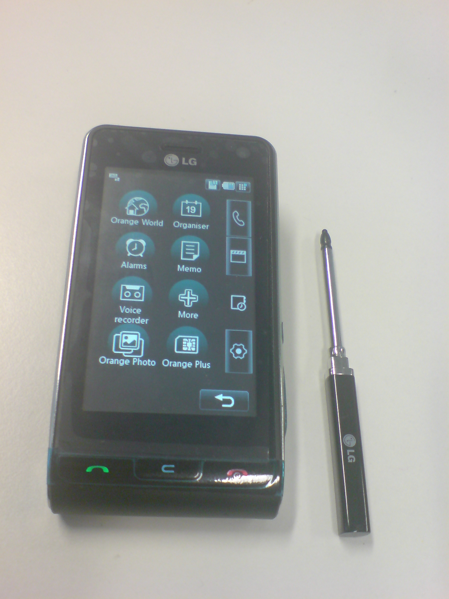 A picture of a new LG Viewty (KU990) cellphone.